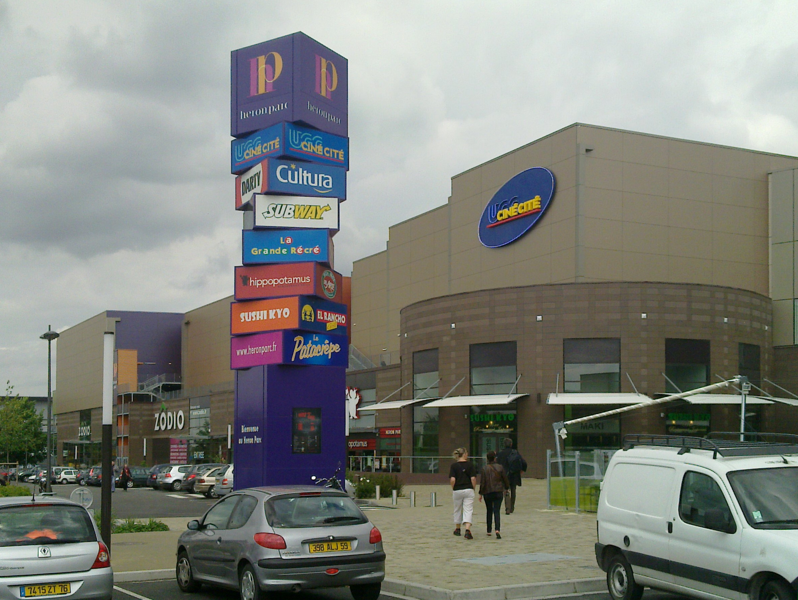 Heron Parc shopping mall in Villeneuve d'Ascq, and UGC Cine Cite cinema.